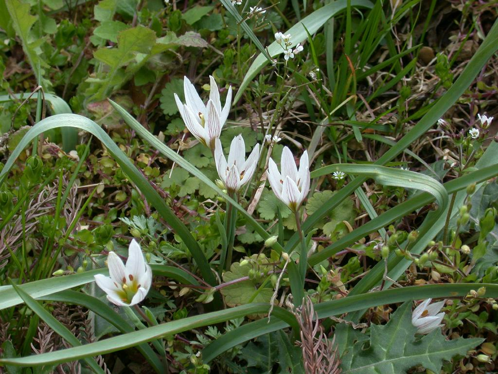 Species Amana edulis Familia Liliaceae Japanese name:Amana Date;2007,03;Tanabe city, Wakayama prefecture, Japan Author;Keisotyo